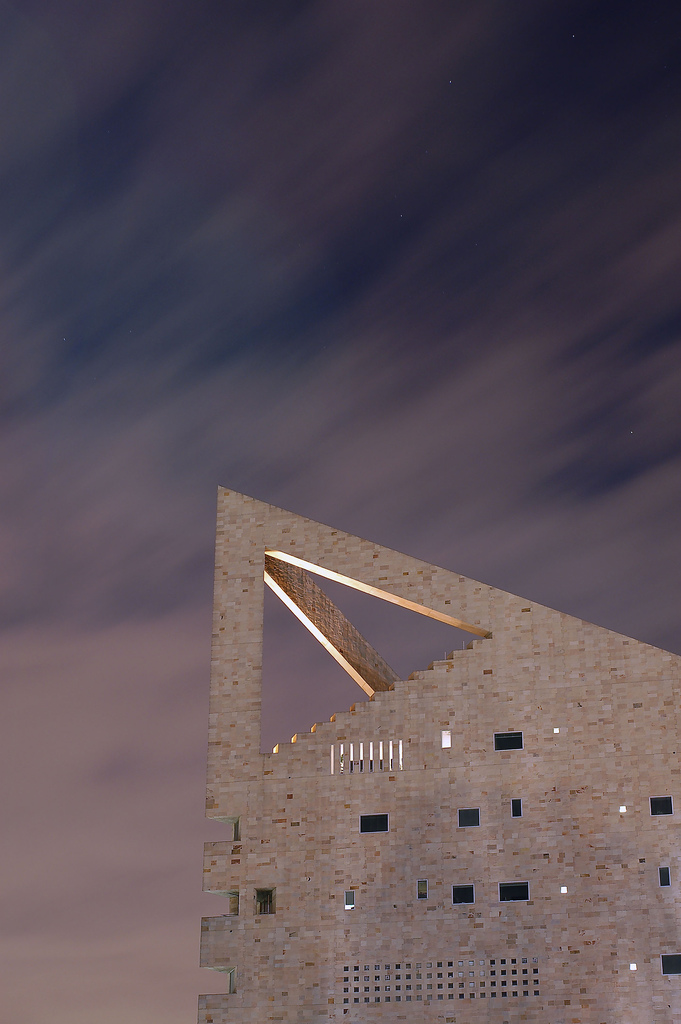 Picture of the CLA Building at Cal Poly Pomona.